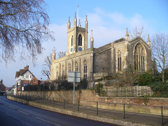 St Mary's, Hampton Brick-built parish church, taken looking westwards during a quiet spell on Hampton Court Road. It was designed by E. Lapidge in 1831 who was also architect for neighbouring Hampton Wick's St John the Baptist. It is on the site of an earlier church - records have it belonging to the Priory of Takeley, Essex in 1342. Beyond the church is The Bell, a pub.